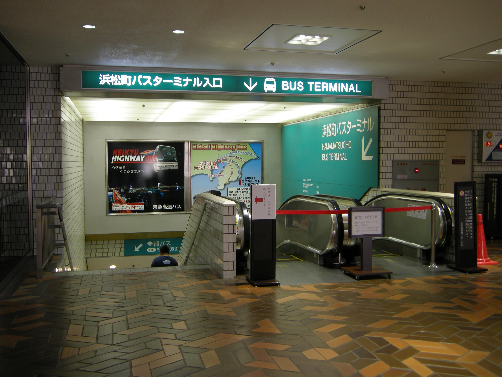 Hamamatsucho Bus Terminal entrance in the 2nd floor of the World Trade Center Building